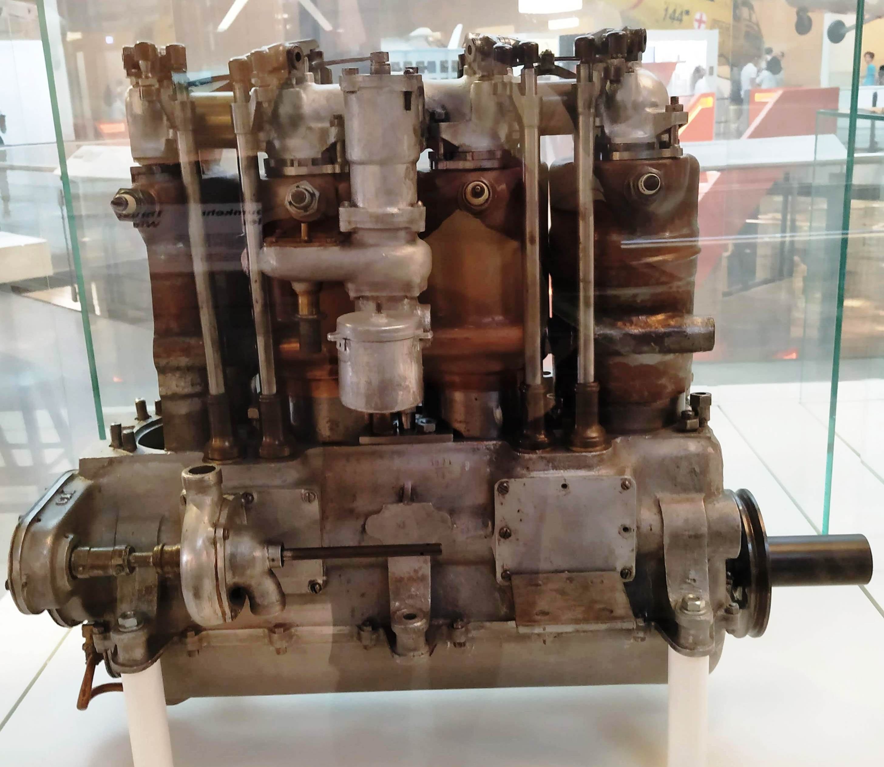 Clerget Aircraft Engine 50PH, 37kW, 4,6l, 4-cyl in-line water-cooled (1909)